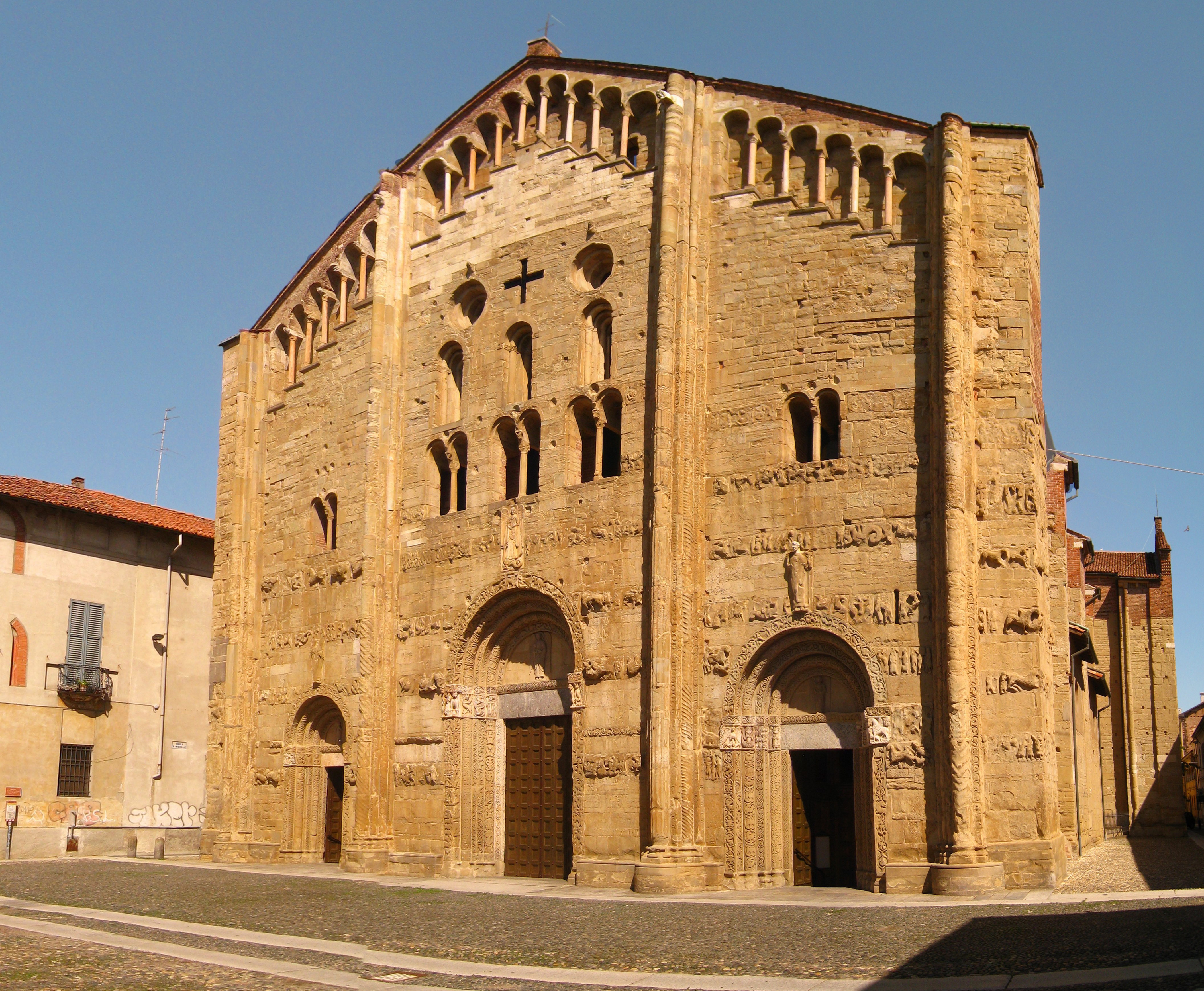 Basilica of San Michele, Pavia, a fine example of Italian Romanesque architecture.